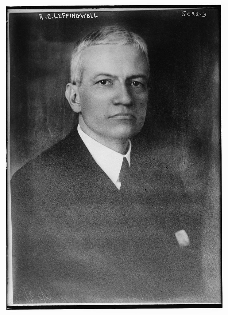 Russell Cornell Leffingwell circa 1913